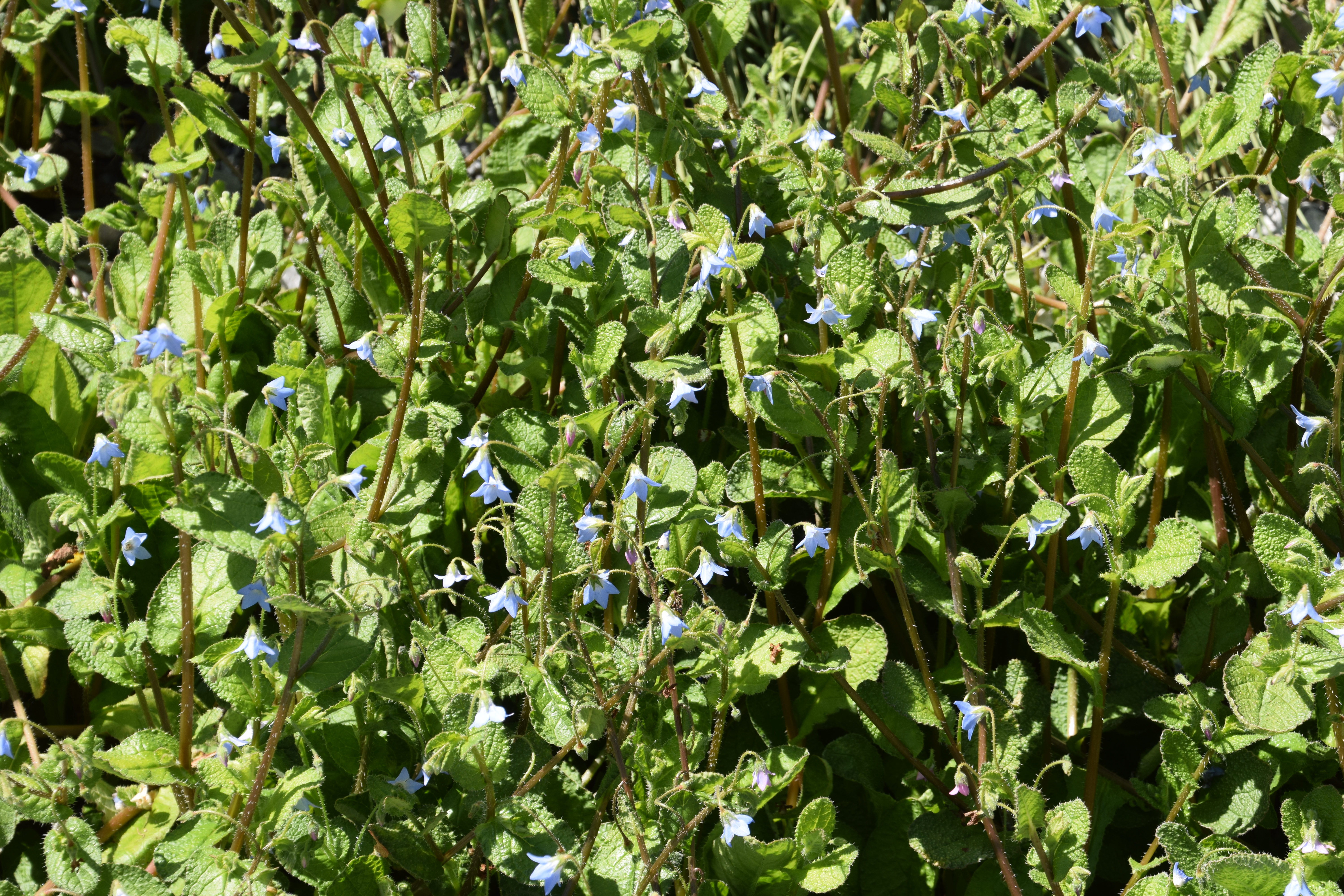 Borago pygmaea in Dunedin Botanic Garden, Dunedin, New Zealand